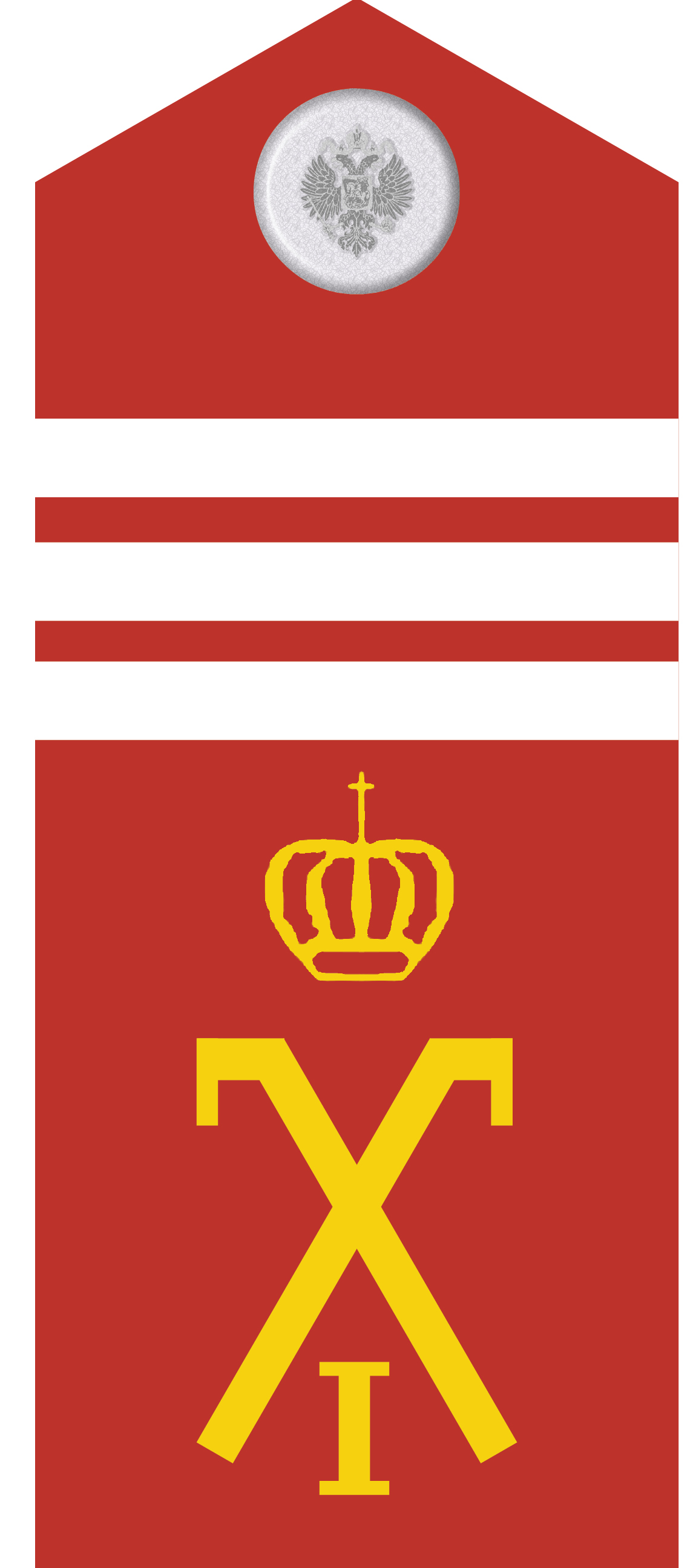 Russian Imperial Army Starshyi Unteroficer shoulder insignia (1. Neva Infantry Regiment version)